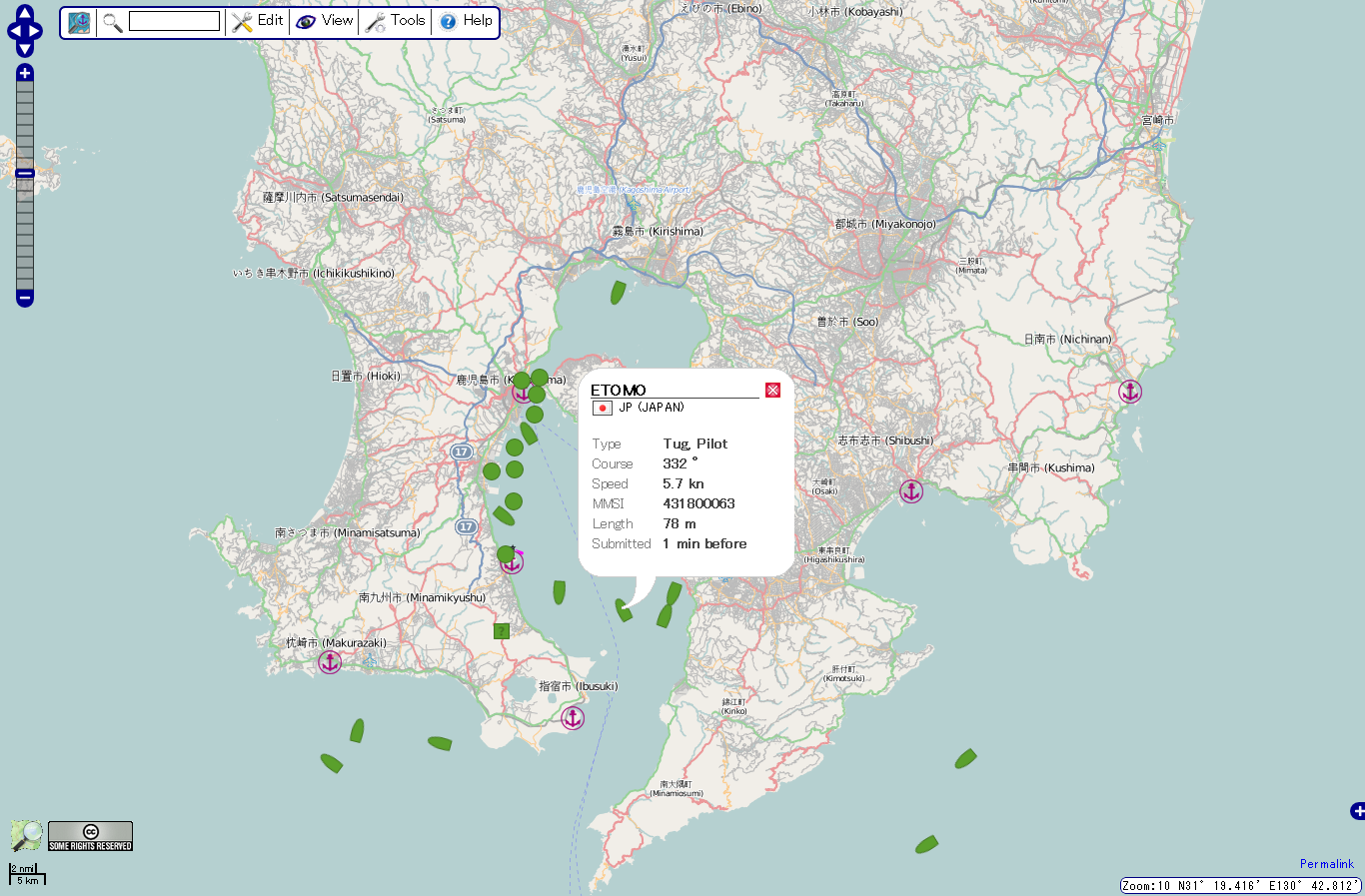 OpenSeaMap. Kagoshima, Japan. This map may be incomplete, and may contain errors. Don't rely solely on it for navigation.